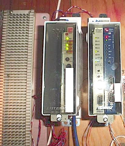 Network Interface Unit (also Smartjack) (cc) 2005, Konrad Roeder